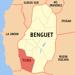 Map of Benguet showing the location of Tuba